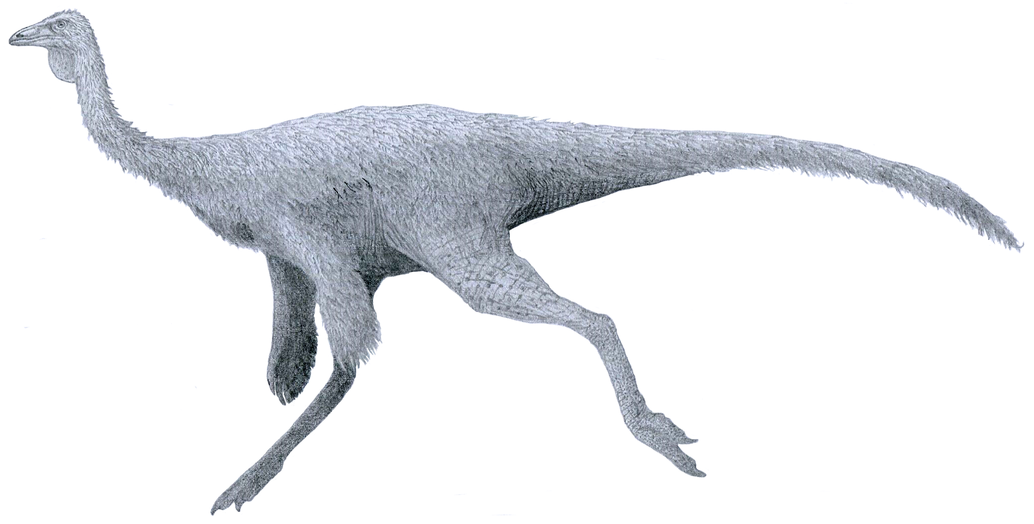 Life reconstruction of "Ornithomimus" sp. based on specimens from the Dinosaur Park Formation.